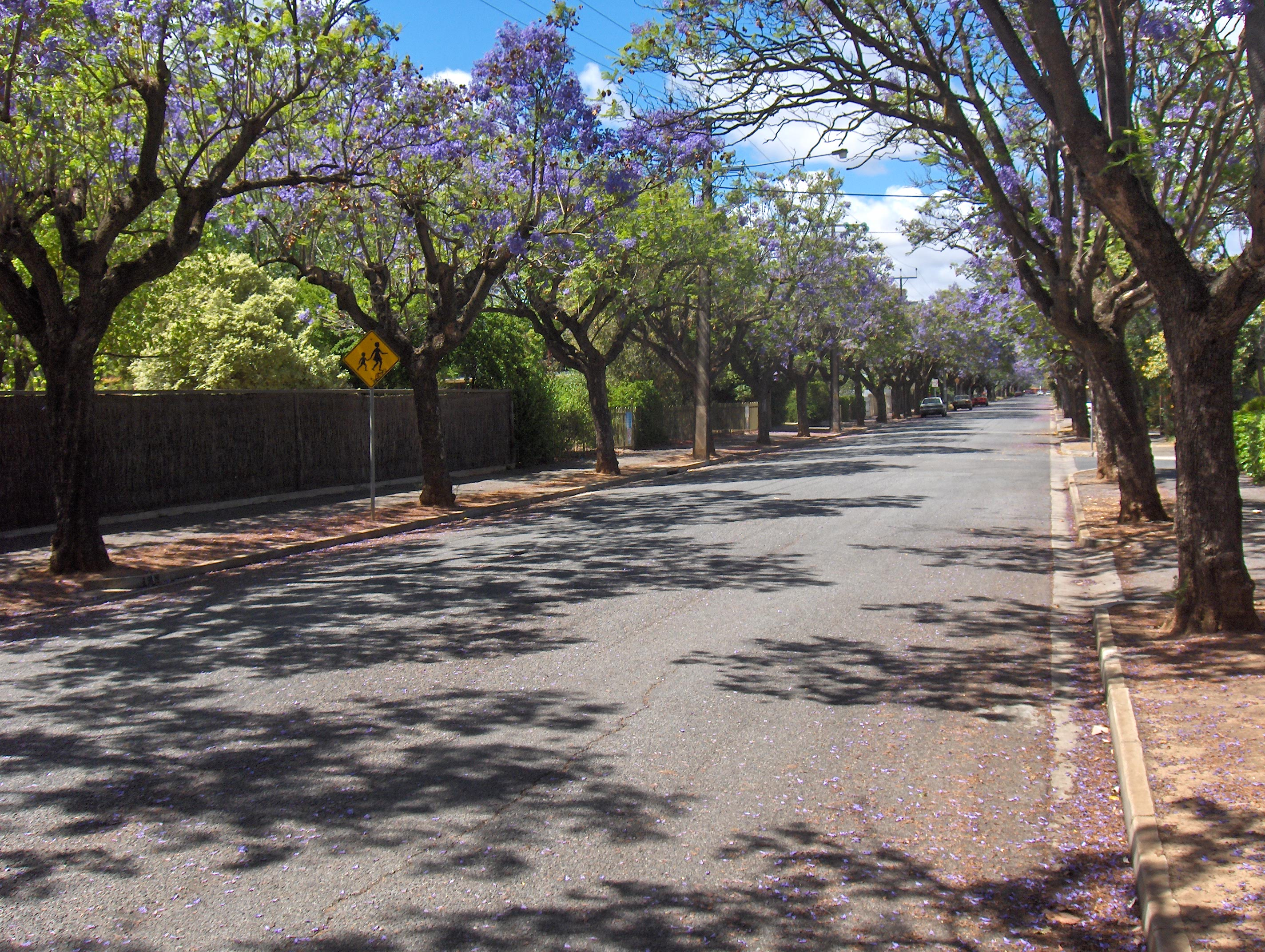 Photo of Churchill Avenue, Clarence Park (South Australia) showing jacaranda trees in flower